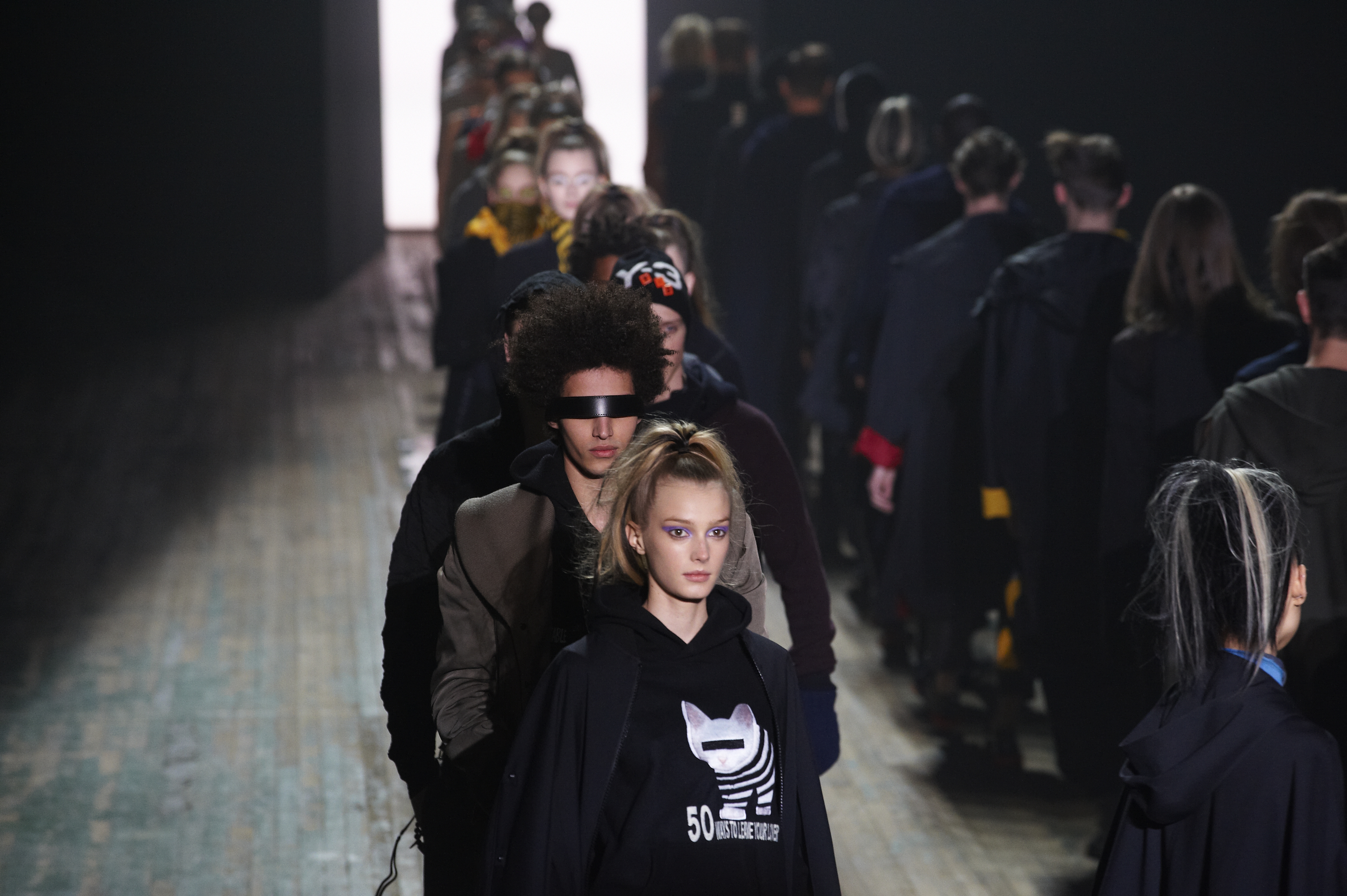 Models take to the runway at the conclusion of the Y-3 Fall/Winter 2010 show at New York Fashion Week, February 2010.